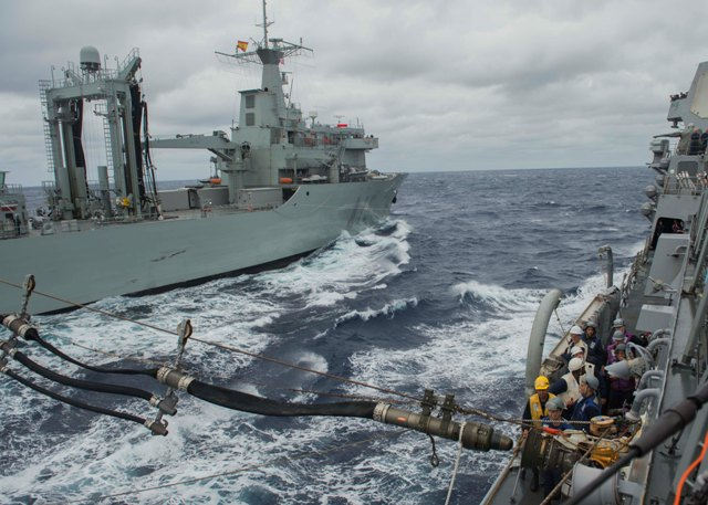 CORAL SEA (July 23, 2013) Arleigh Burke-class guided-missile destroyer USS Momsen (DDG 92), right, prepares to receive a single-probe refueling hose from Spanish combat support ship ESPS Cantabria (A-15) during a replenishment-at-sea in support of Talisman Saber 2013. Talisman Saber 2013 is a biennial training activity aimed at improving Australian and U.S. combat readiness and interoperability. (U.S. Navy photo by Mass Communication Specialist 3rd Class Gregory A. Harden II/Released).